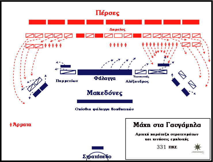 Linguistic manipulation of english map on opening movements of Gaugamela Battle